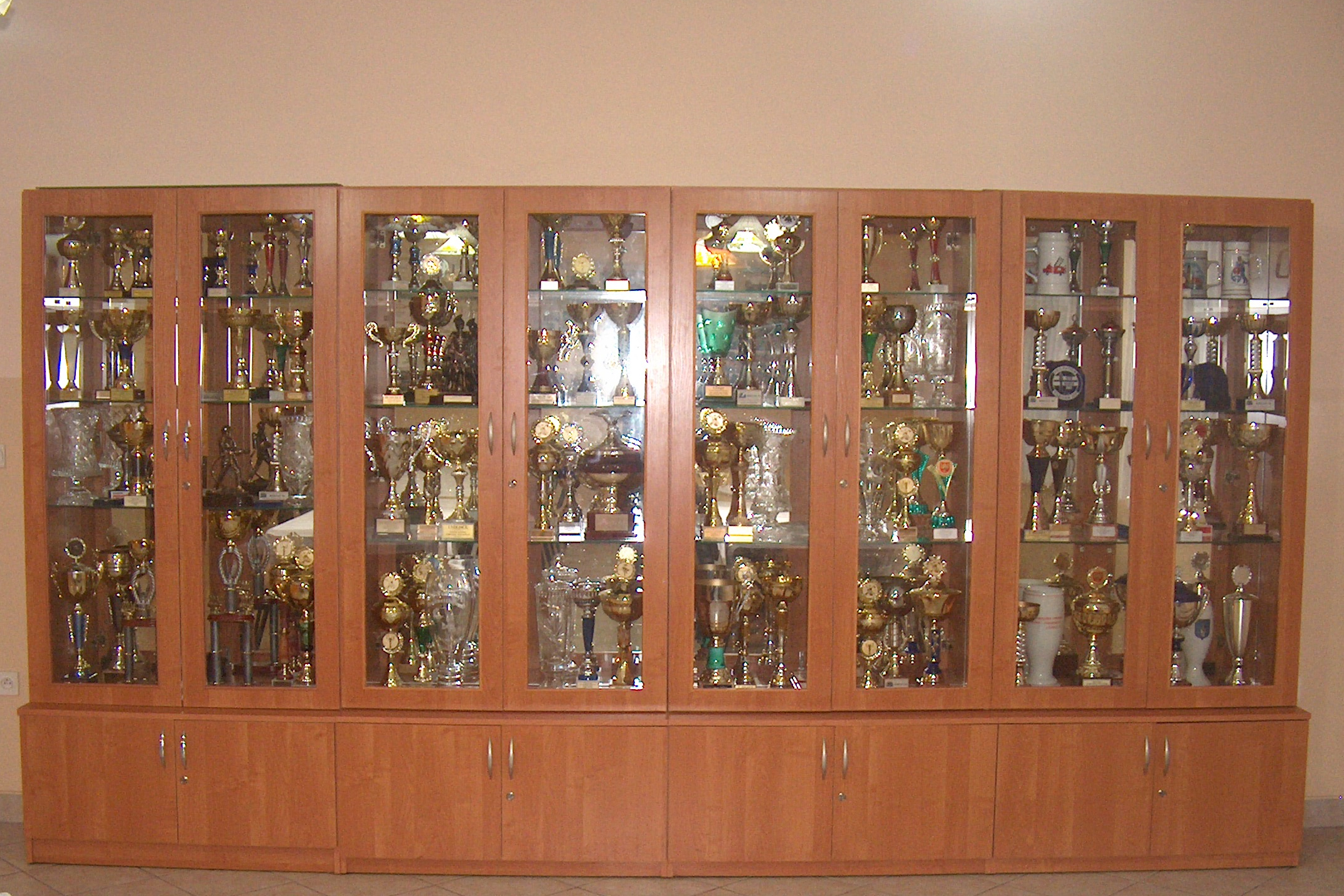 Gallery of Cups OSP Barchlin